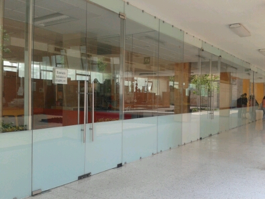 Parte exterior de CECTEC